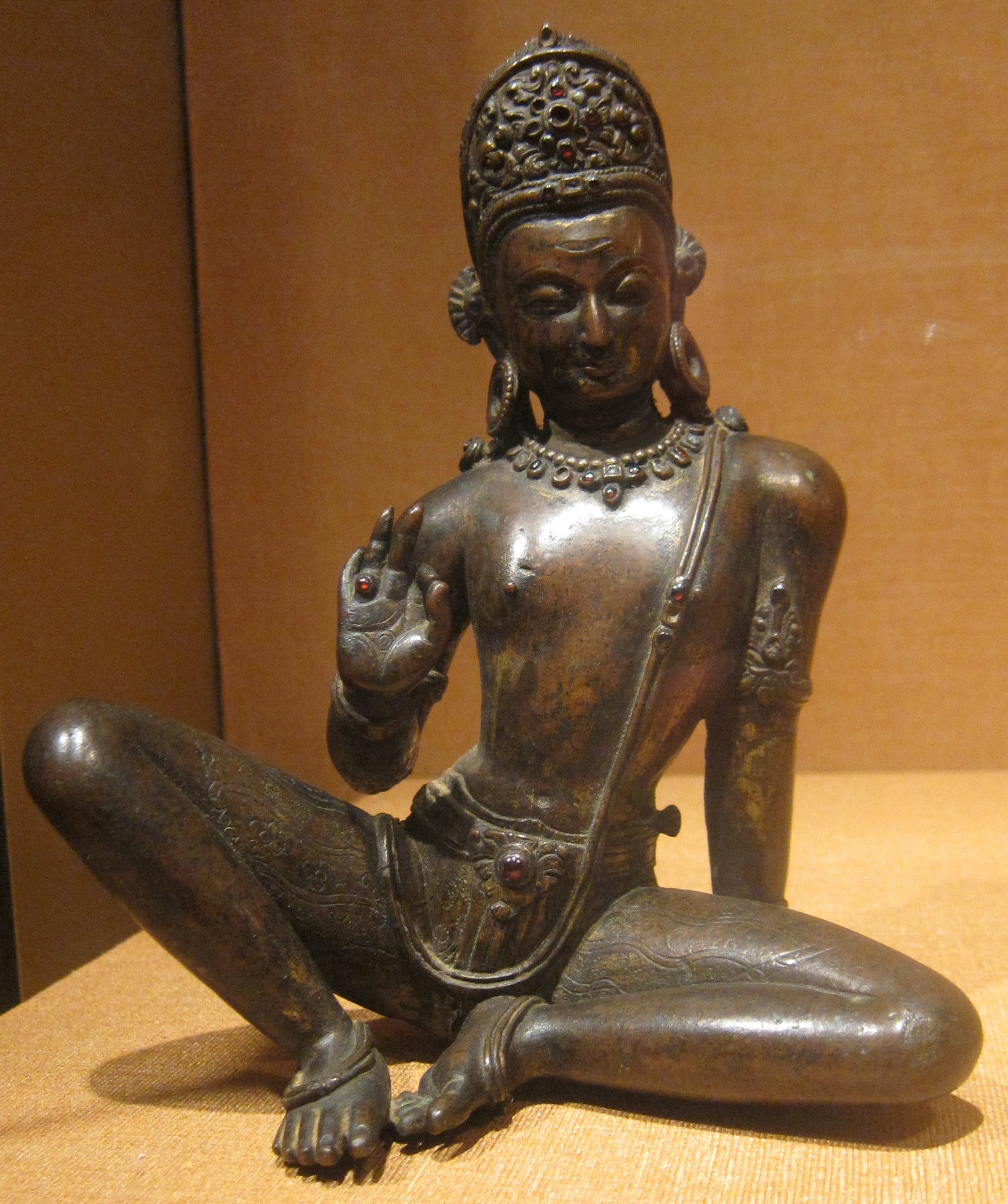 Gilt copper statue of Indra with inlaid semi-precious stones, Nepal, 13th century, Honolulu Academy of Arts